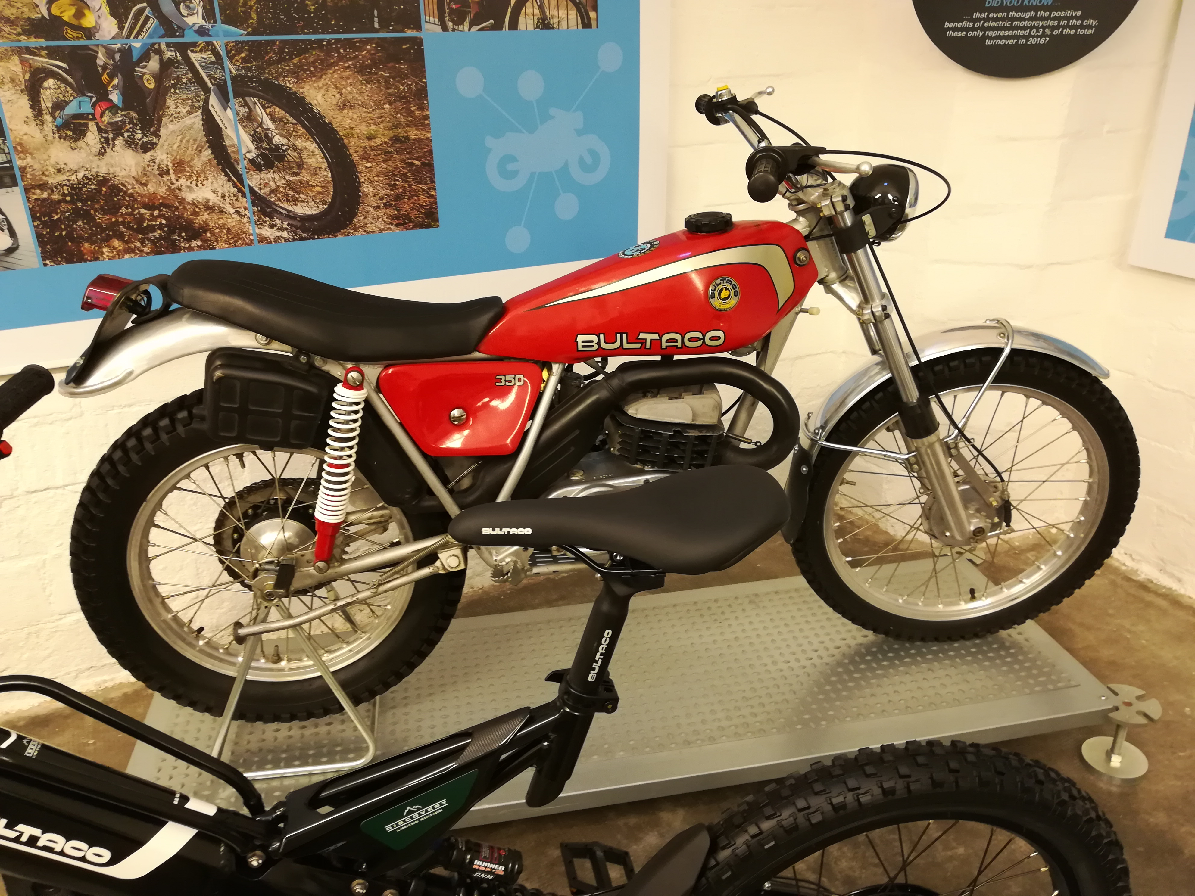 Bultaco Sherpa T 350cc mod. 191 (1976). This unit belonged to the king of Spain.